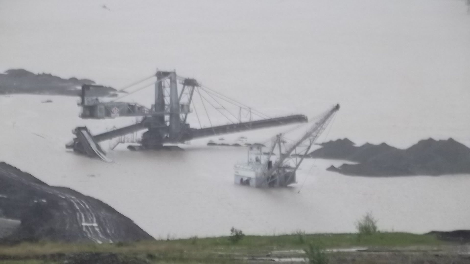 Zapadno polje